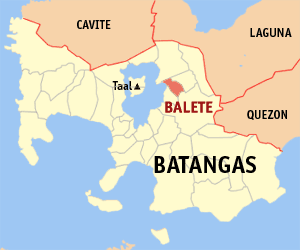 Map of Batangas showing the location of Balete